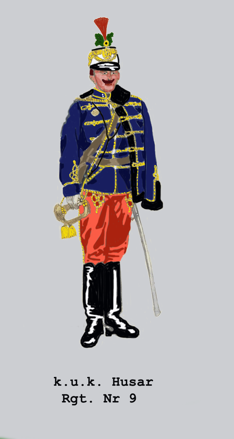 Bugler of the 9th austro-hungarian Hussars Regiment. Parade dress, as such in use until ca. 1916